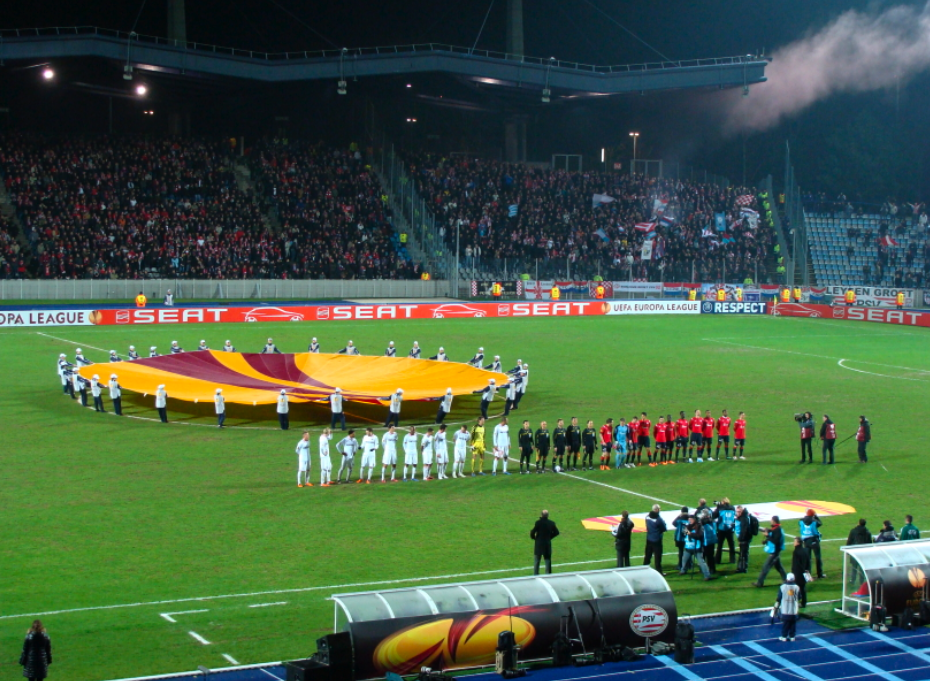 Lille (LOSC) vs PSV Eindhoven (Europa League 2010-2011)